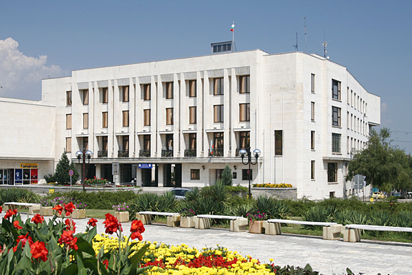 Gorna Oryakhovitsa town centre